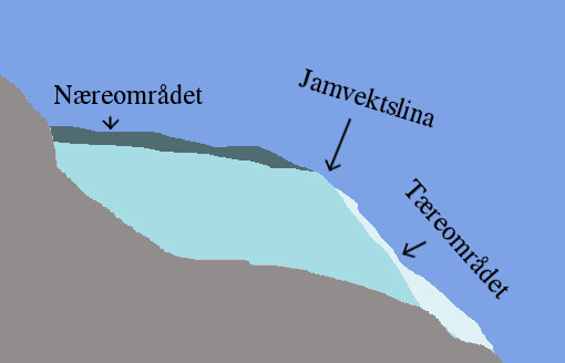 Figure showing the zones of accumulation and ablation of a glacier, in Norwegian Nynorsk.